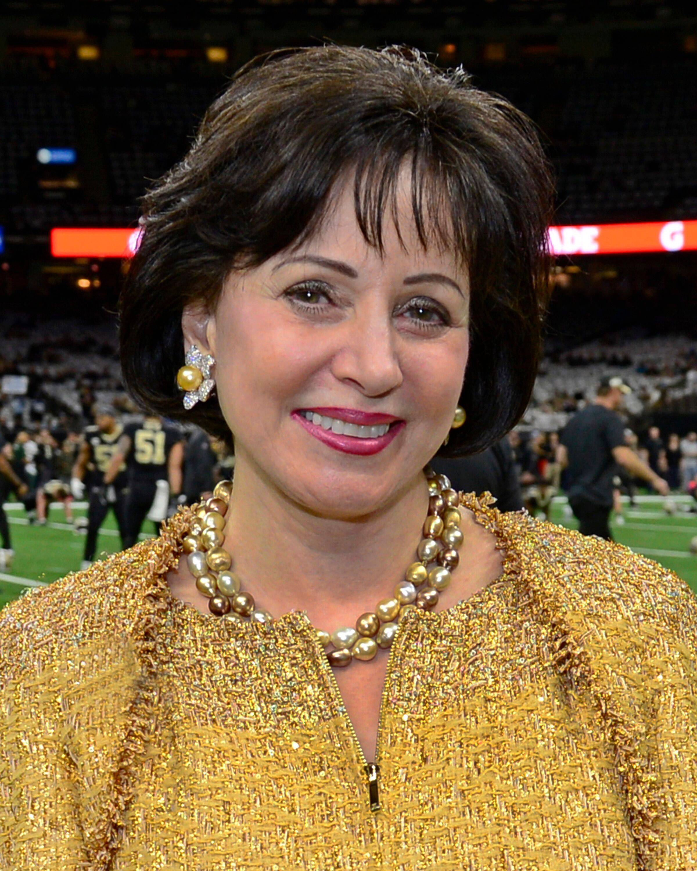 Mrs. Gayle Benson at a New Orleans Saints football game